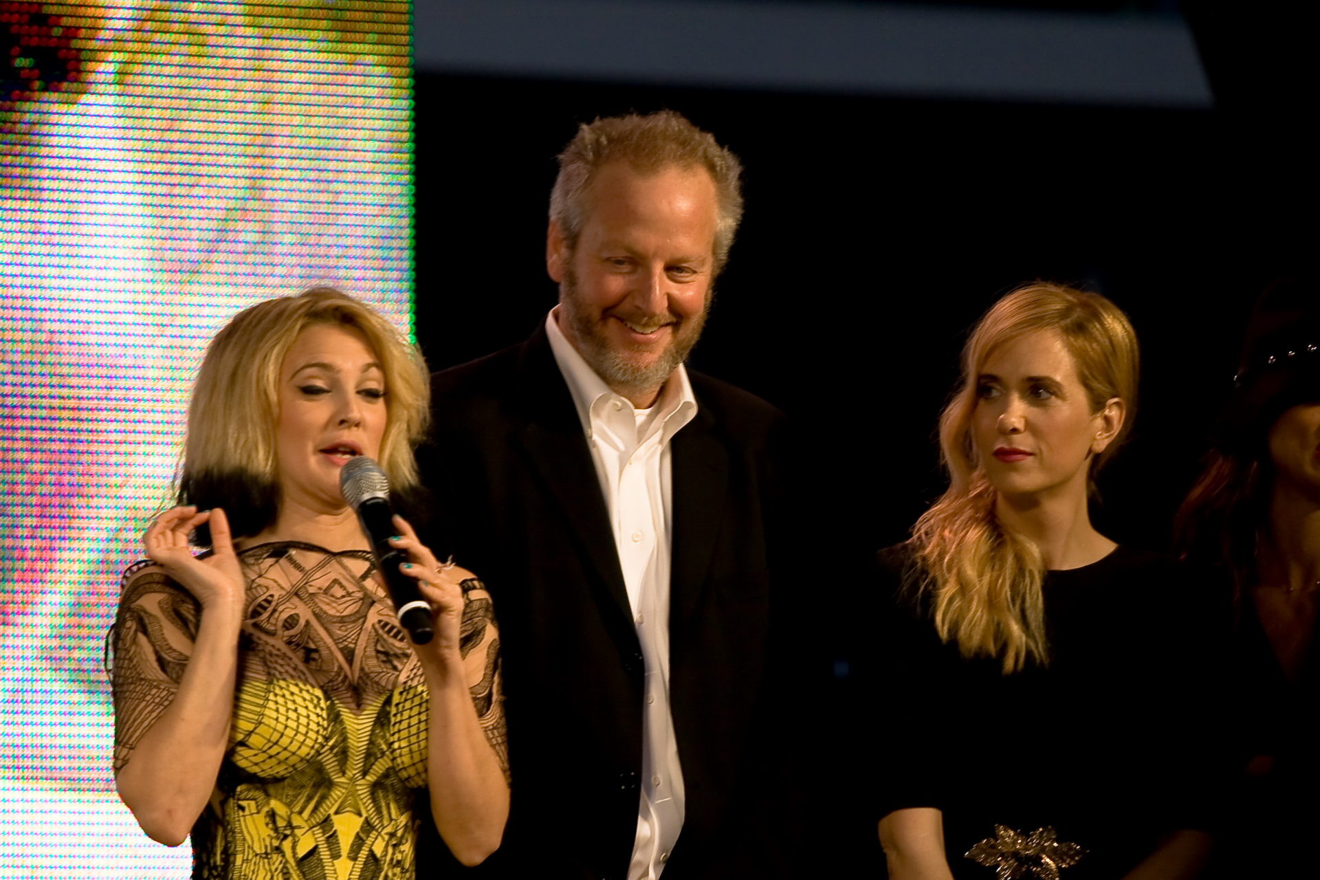 At the "Whip It" roller derby presentation at Yonge-Dundas Square, Toronto International Film Festival, 2009.